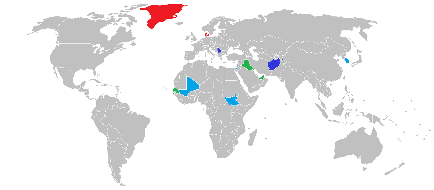 Current deployments (per 10-03-2016) of the Danish Defence. Red: National, Light blue: UN, Dark blue: NATO, Green: Koalitions